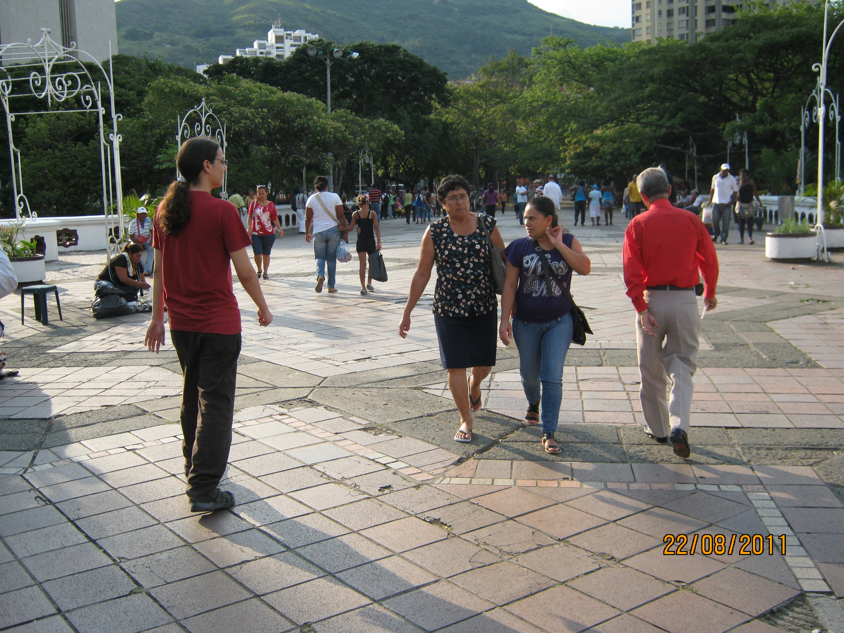 Photo of Ortiz Bridge, in the photo appears the Wikipedist Remux